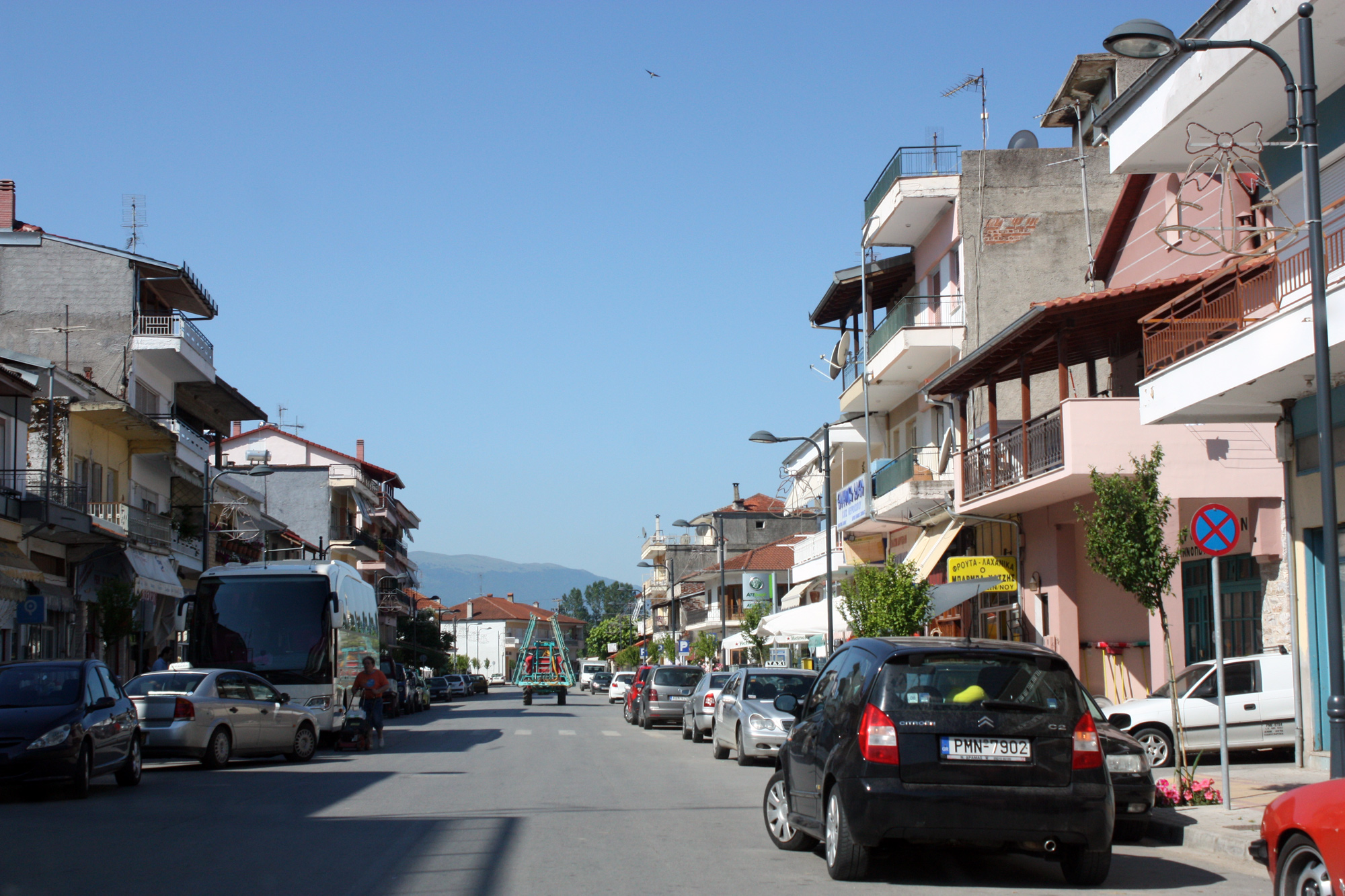 Central street of Kato Nevrokopi, Greece